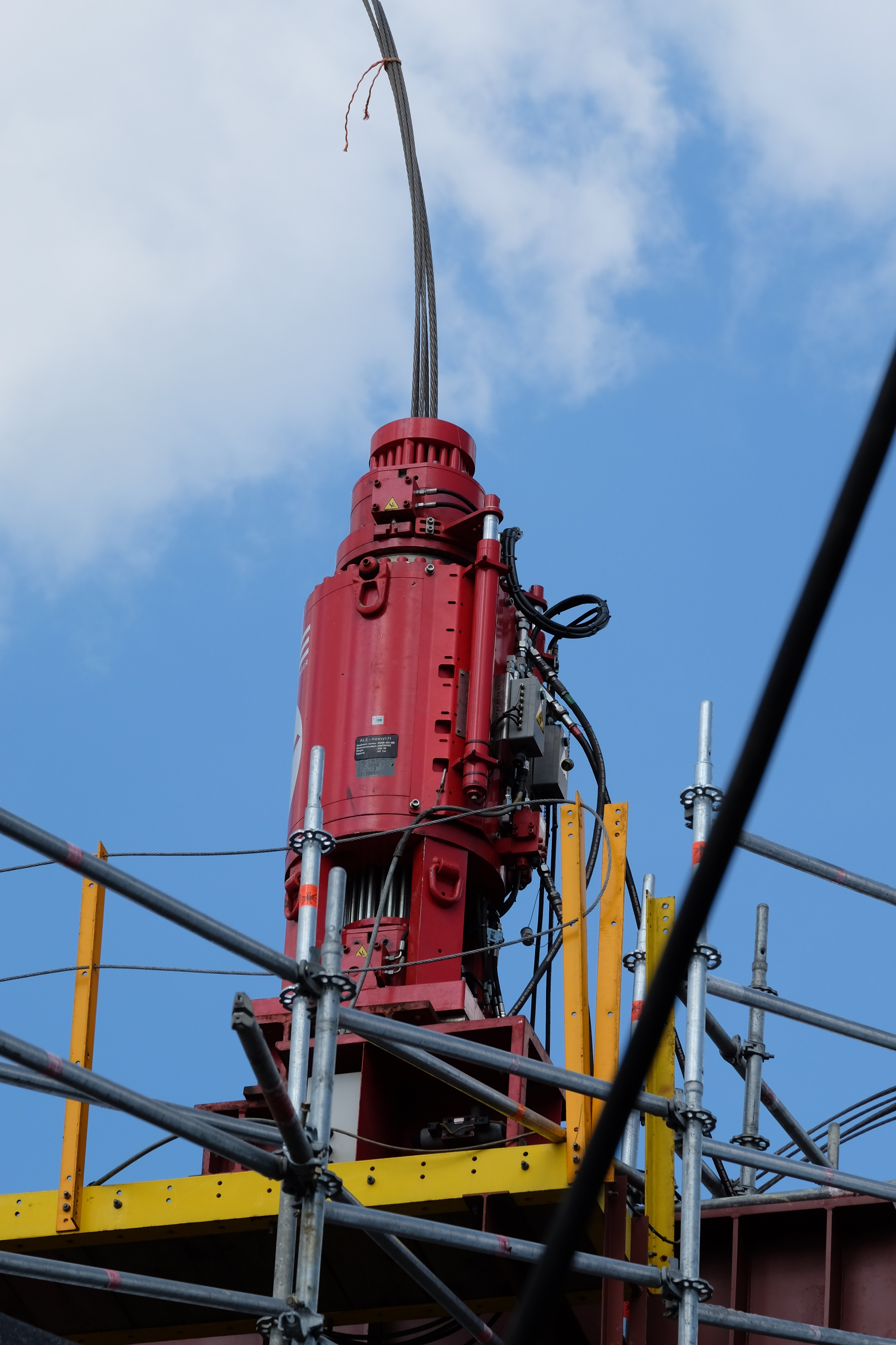 Strand jack when installing the middle piece of Freybrücke in Berlin Spandau on June 3, 2016